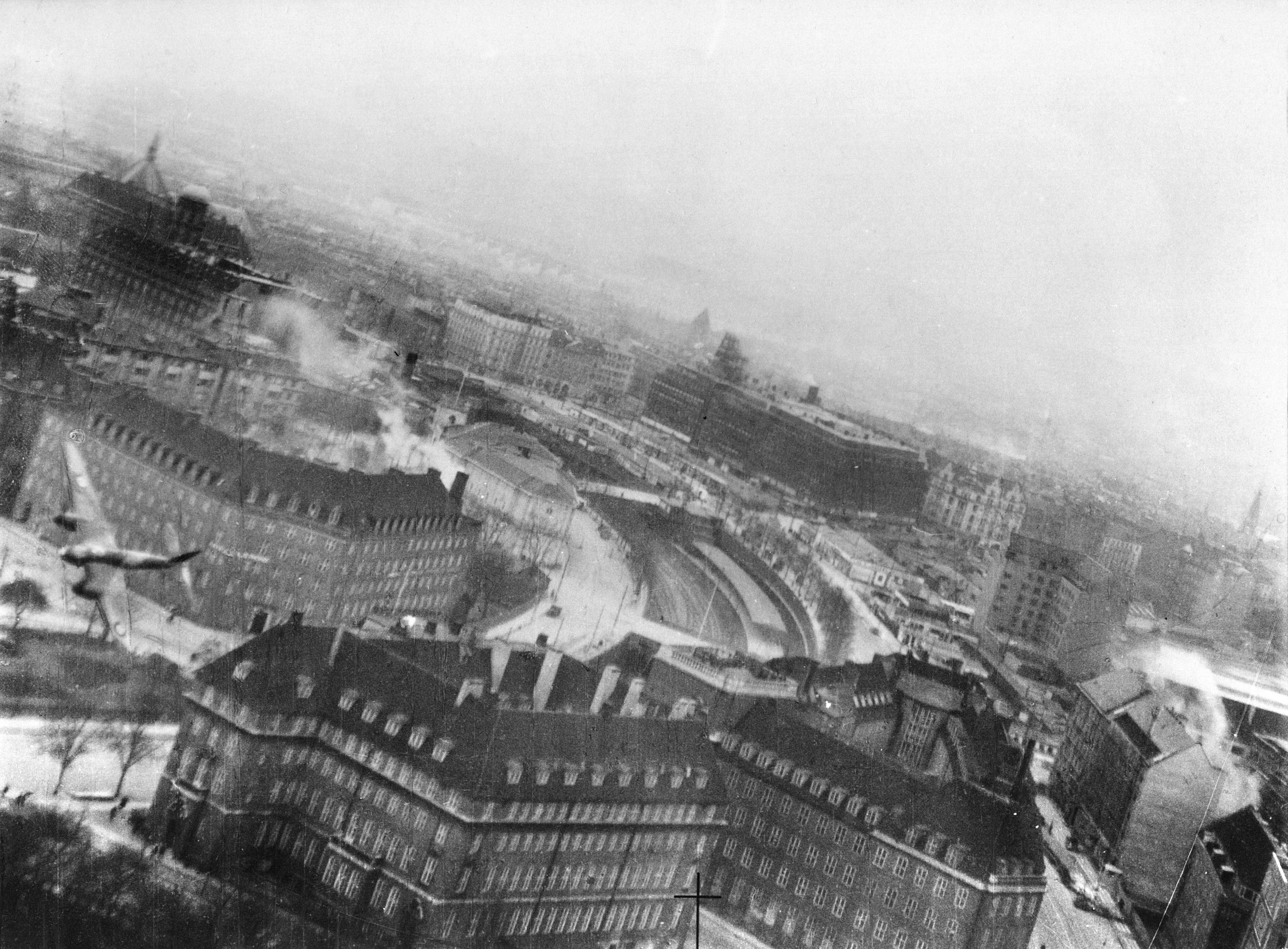 A British fighterbomber attacks a Gestapo building in Copenhagen